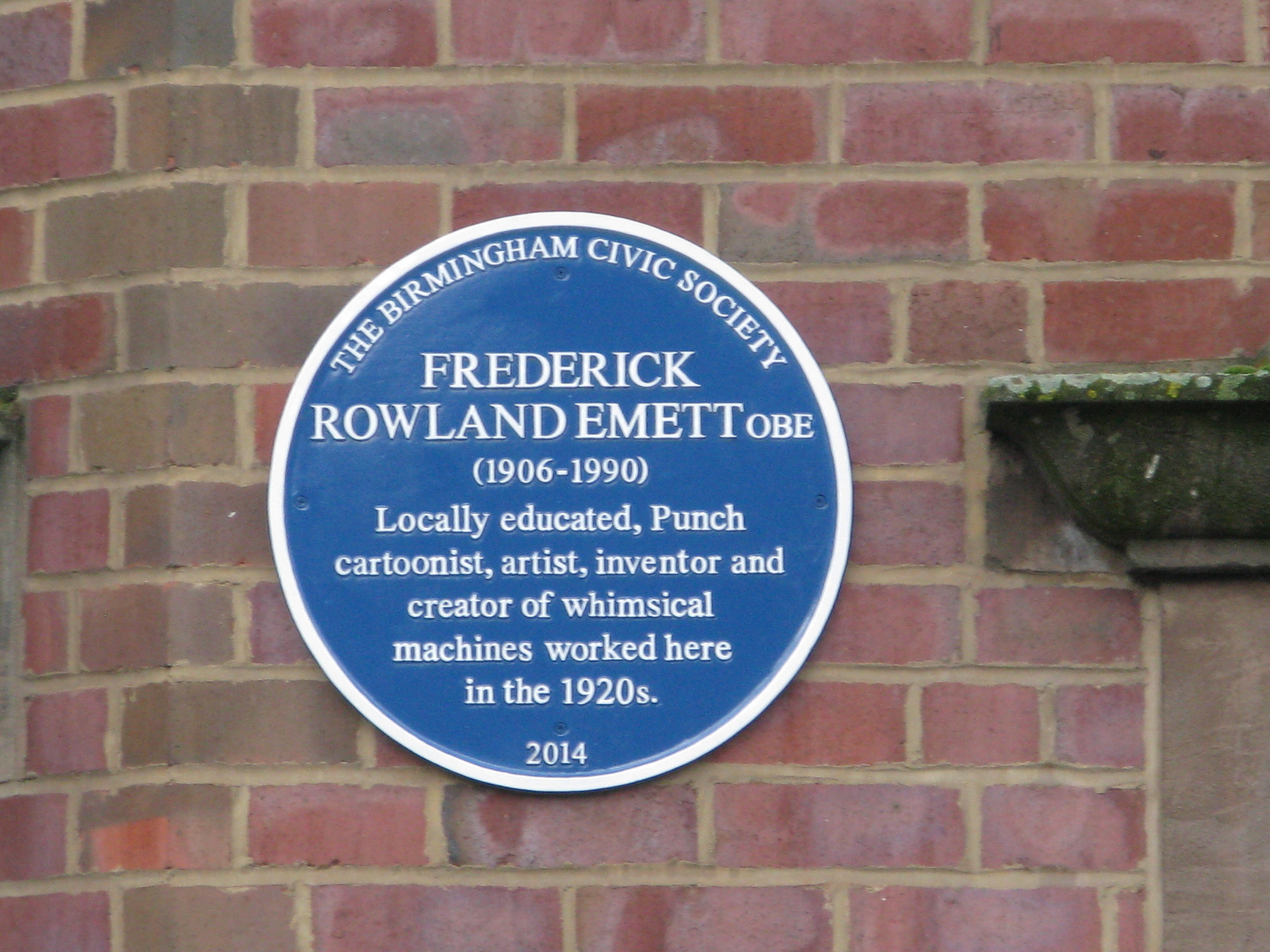 Ludgate Loft Aparments facing Lionel Street